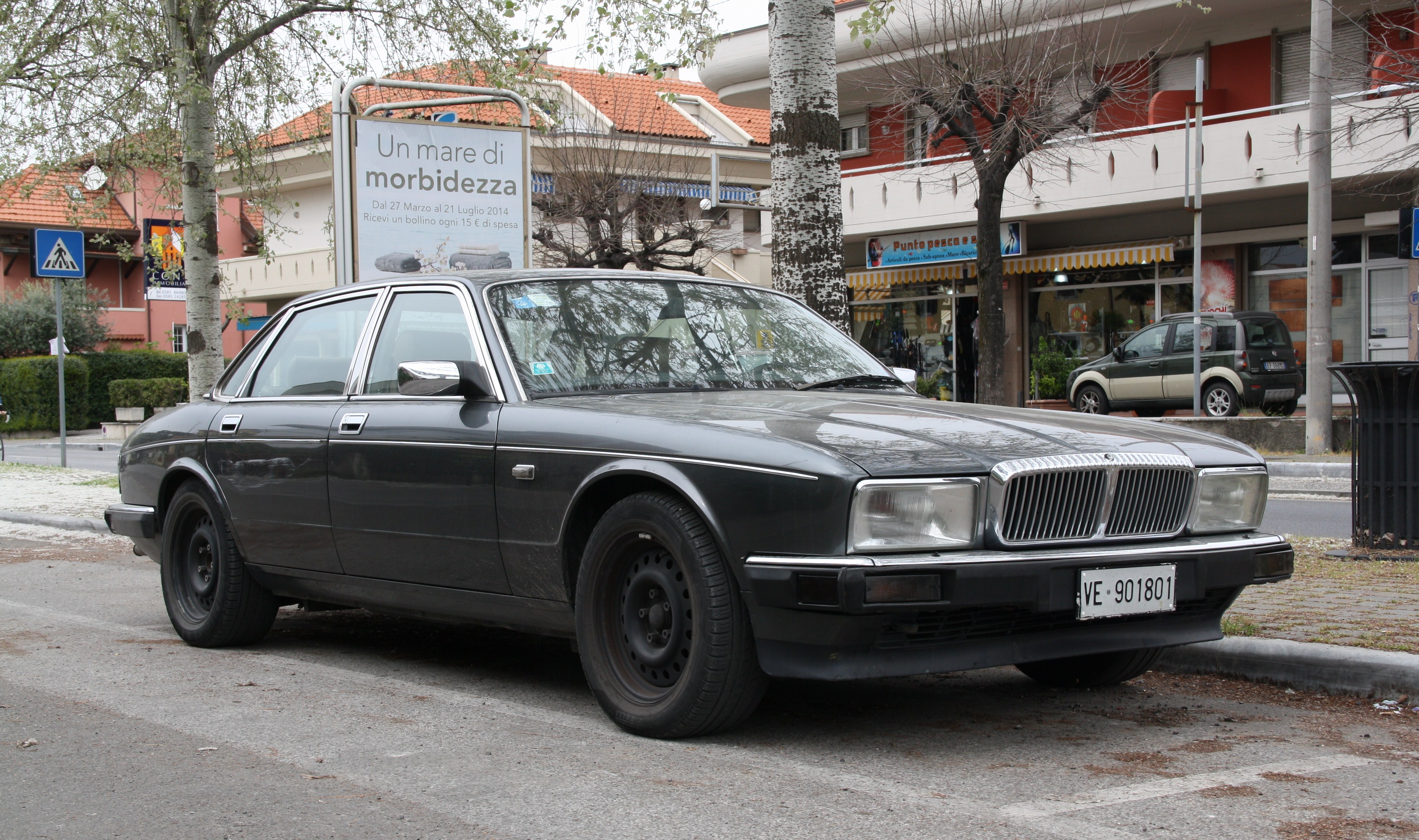 United Kingdom, Daimler XJ40